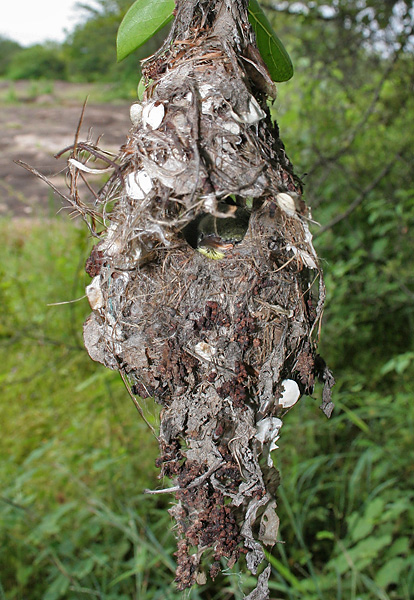 Purple-rumped Sunbird Leptocoma zeylonica in Hyderabad , India.